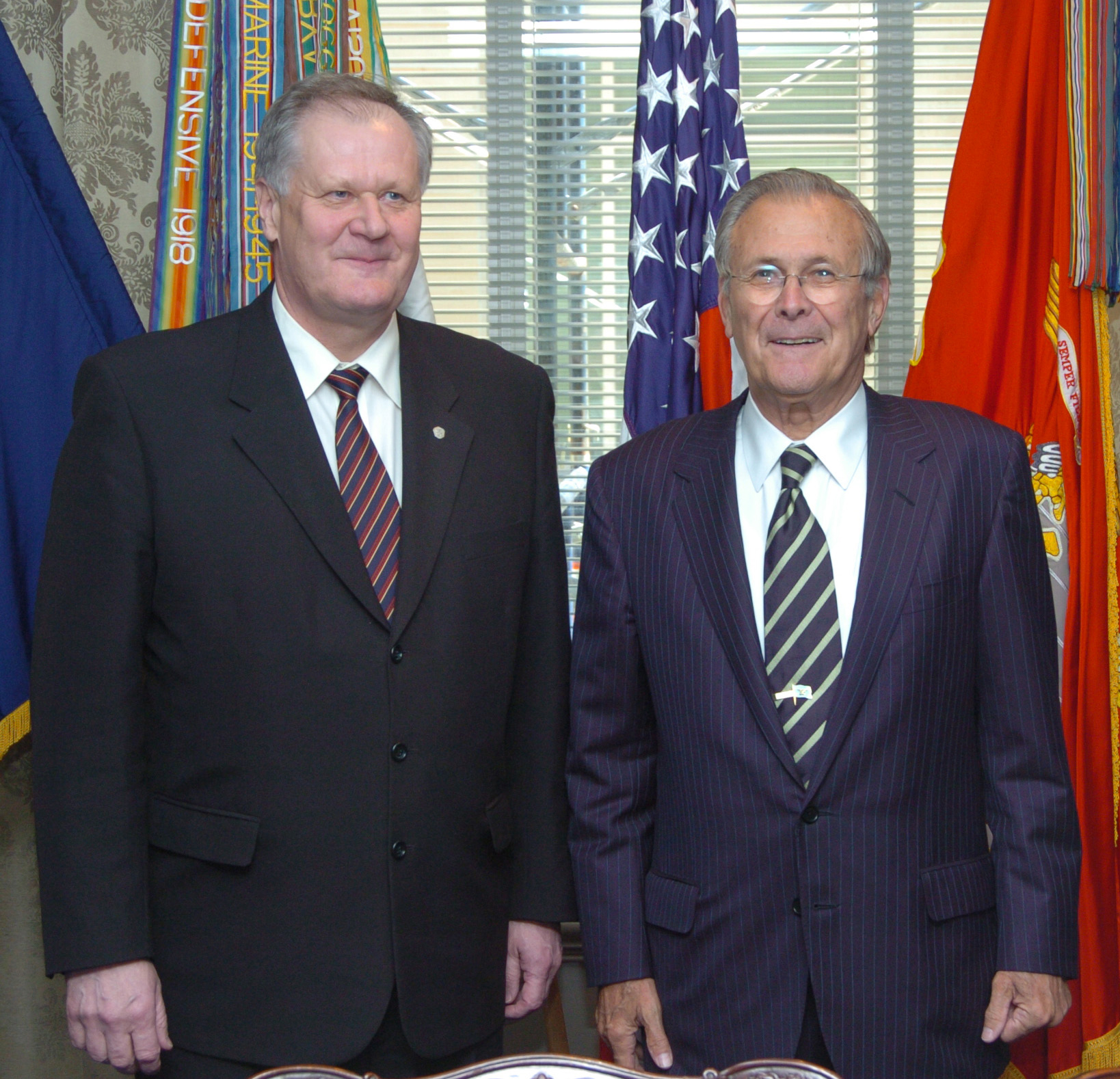 Seppo Kääriäinen, Minister of Defence of Finland (left) and Donald Rumsfeld, U.S. Secretary of Defense.